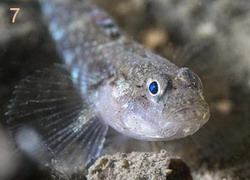 Picture of Gobiidae